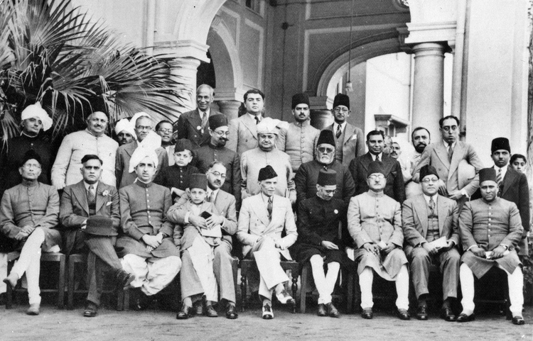 Muslim League leaders after a dinner party given at the residence of Mian Bashir Ahmad, Lahore, 1940. Group portrait with Jinnah seated in the centre. From BL Photo 429/(6), held and digitised by the British Library.